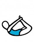 bp19